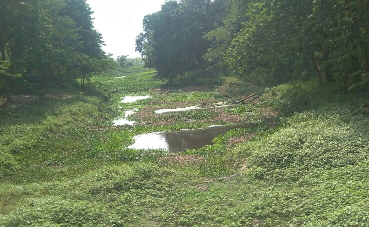 Ex flow-way of kamala (near maujampur)